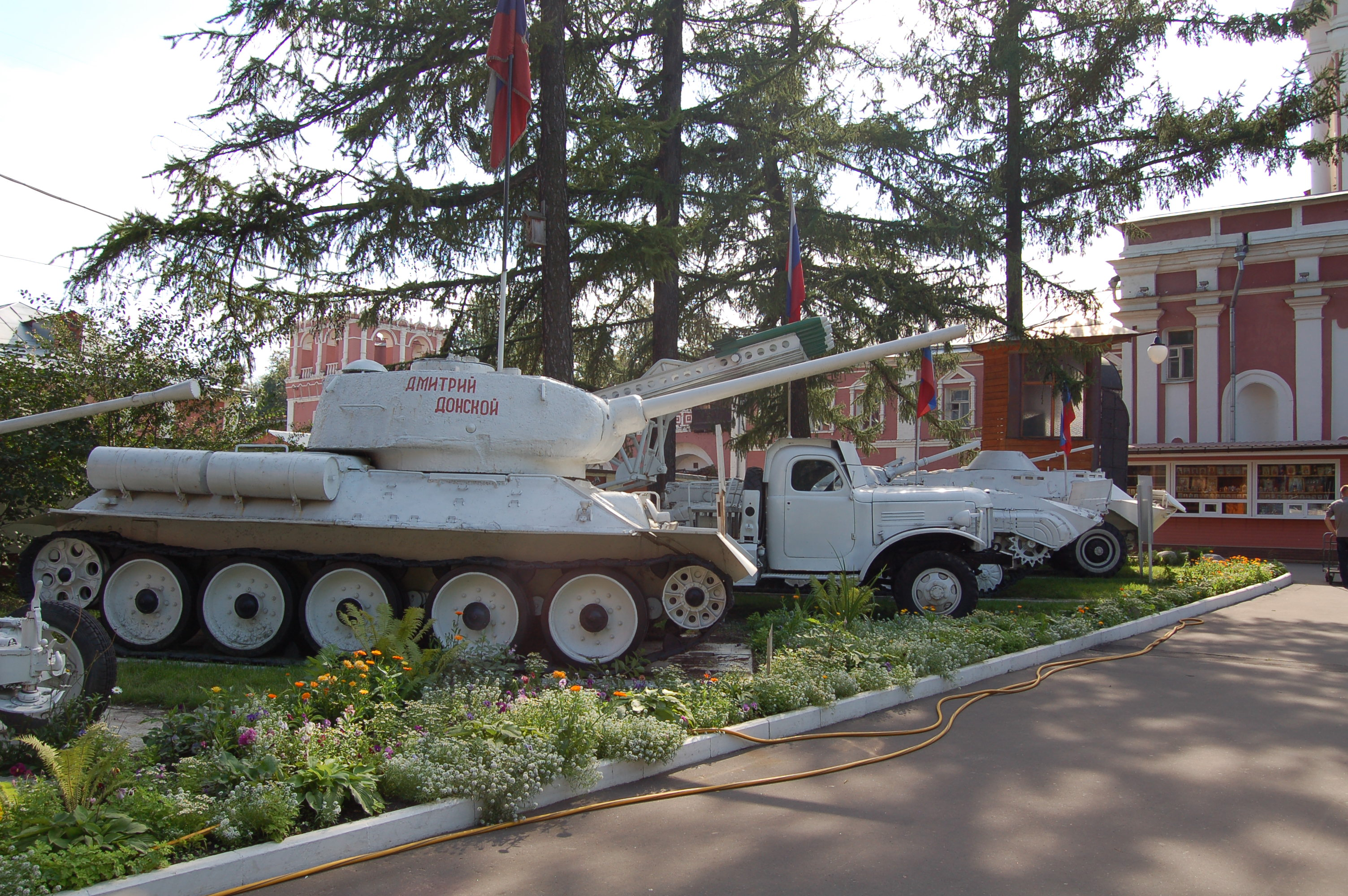 Tanks in a museum in Moscow, 2008.